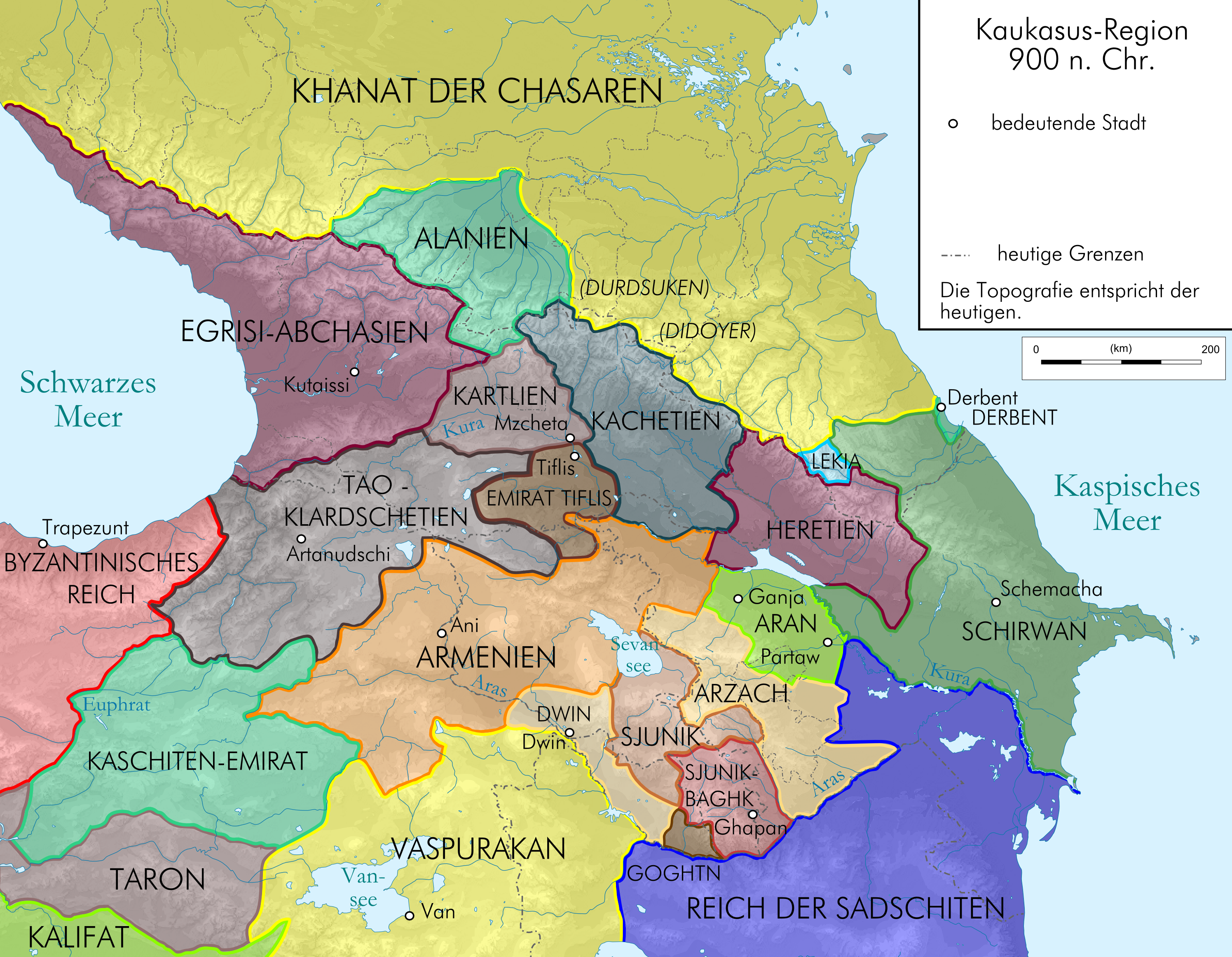 Map of Caucasus Region around 900 AD in German.